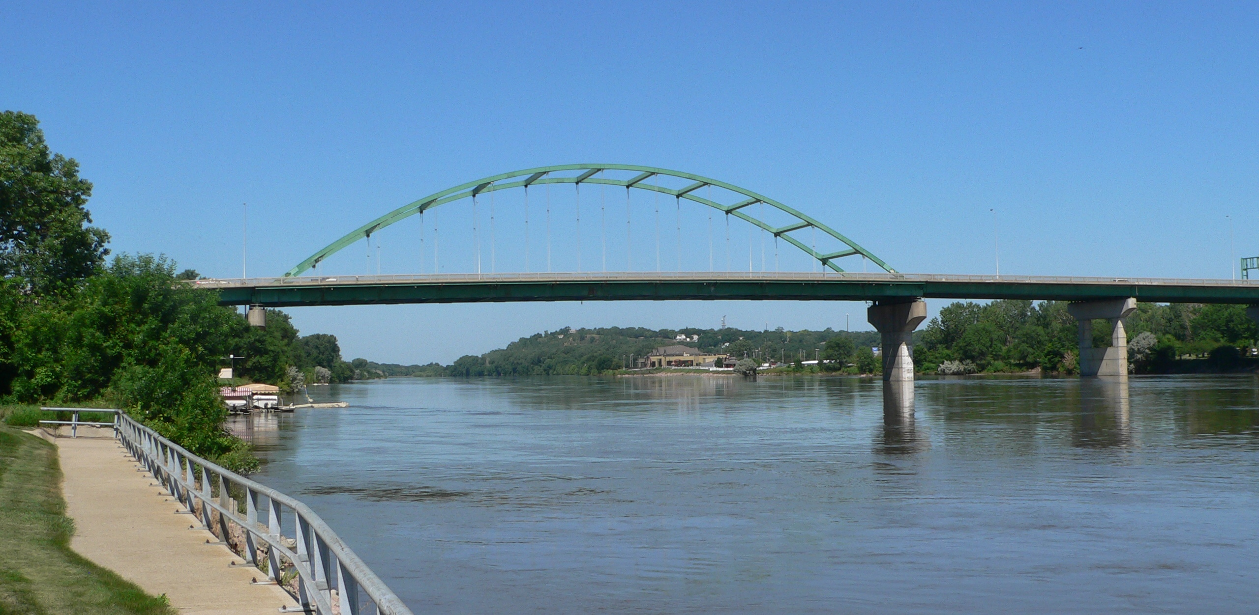 Siouxland Veterans Memorial Bridge, carrying U.S. Highway 77 across the Missouri River from South Sioux City, Nebraska to Sioux City, Iowa. The photo was taken from the Nebraska side, facing upstream.